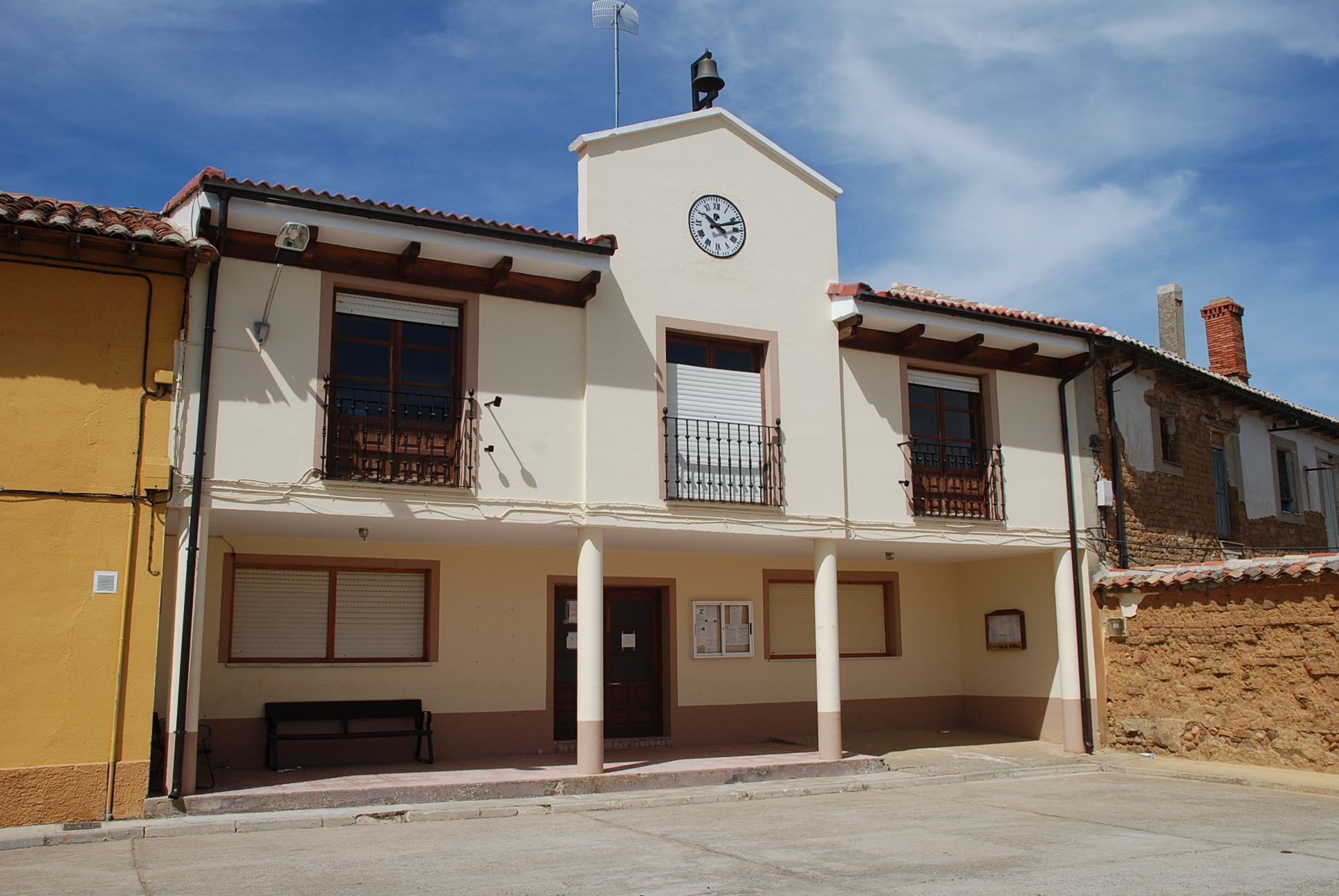 Town hall of Revilla de Collazos (Palencia, Castile and León).